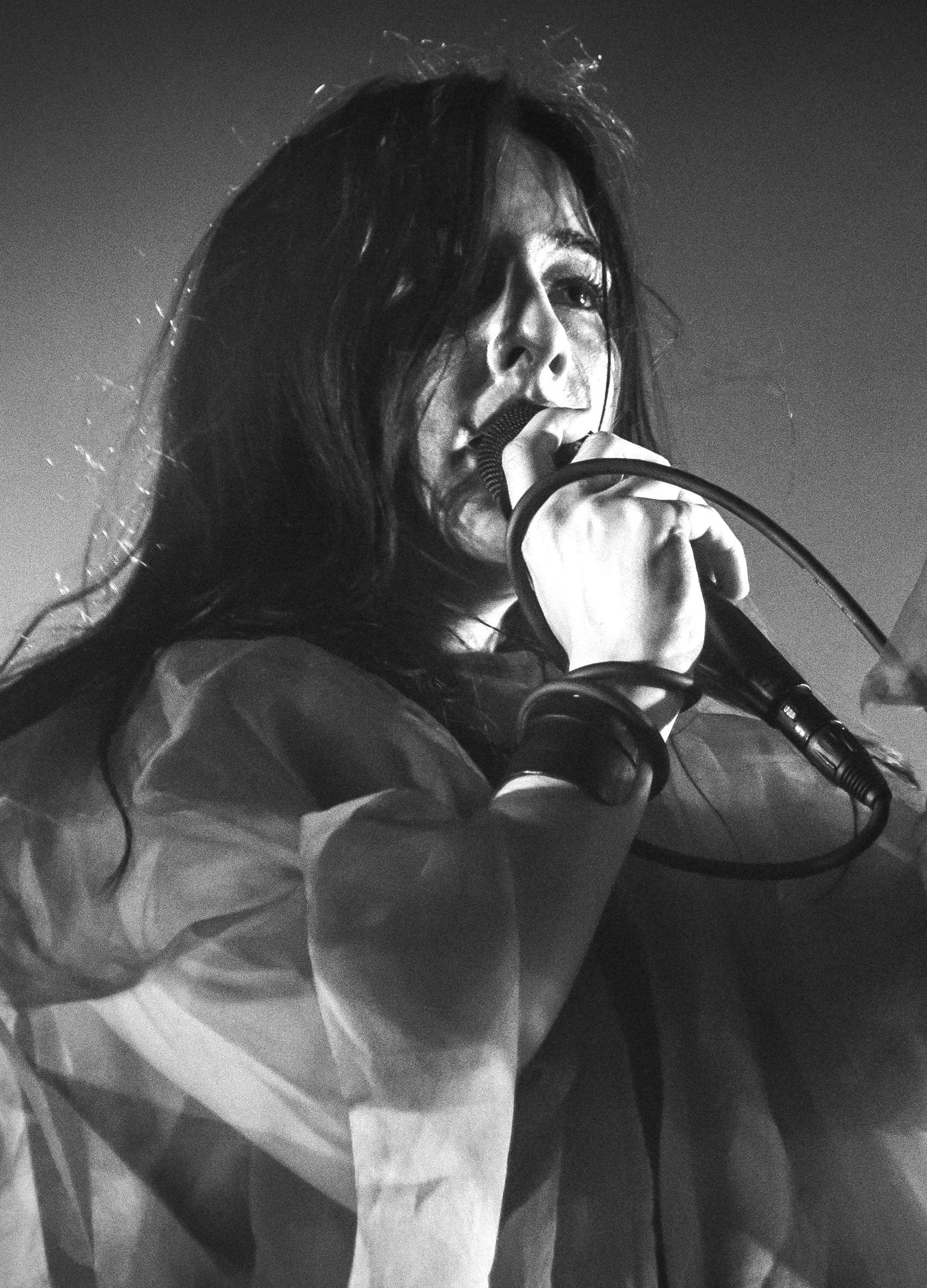 Zola Jesus performing live at Roadburn, 2018